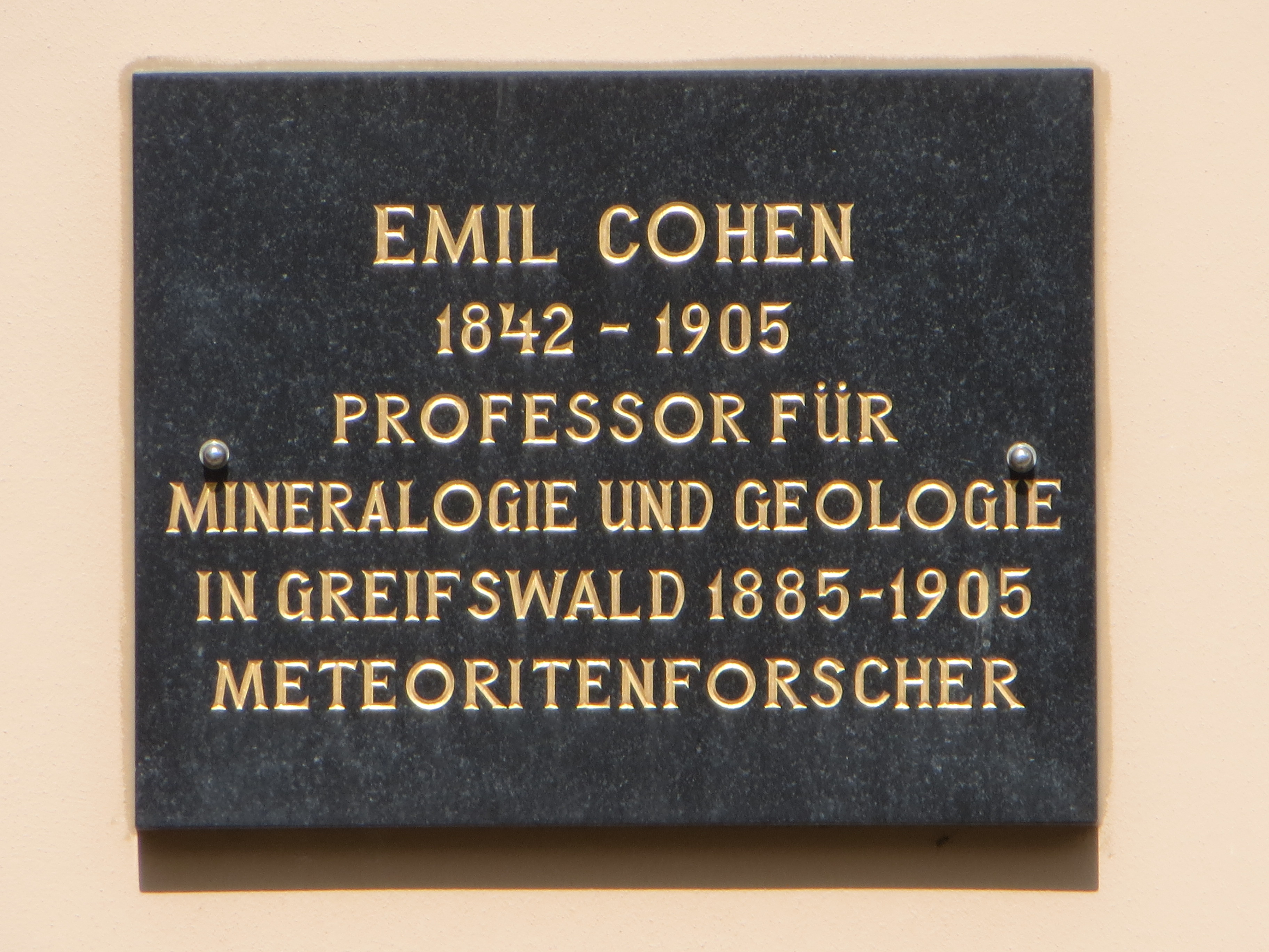 Wolgaster Strasse 144, Plaque commemorating Emil Cohen